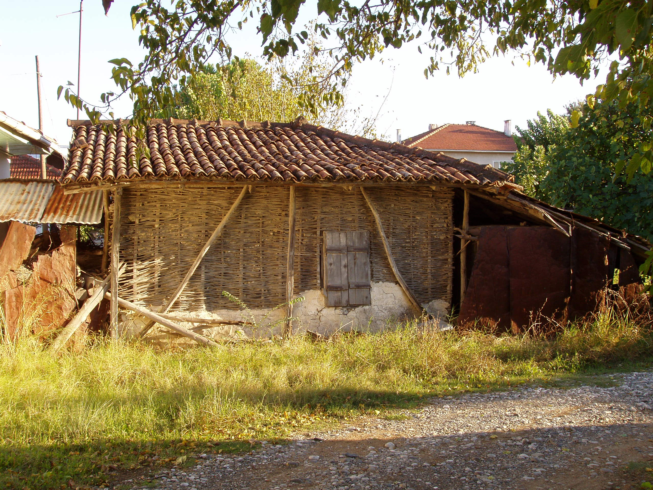 Basket house in Hamitkoy